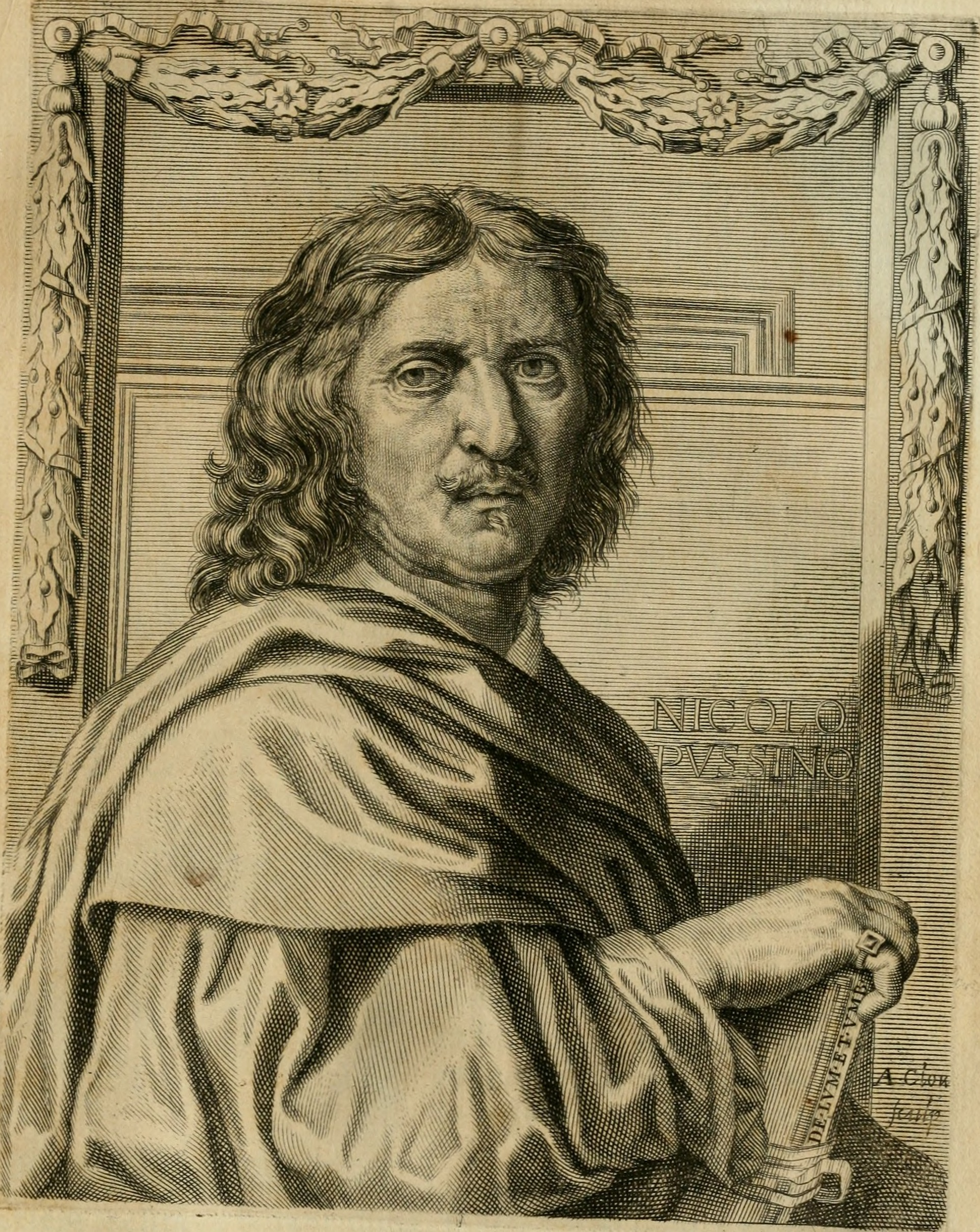 Title: Le vite de' pittori, scultori et architetti moderni Year: 1672 (1670s) Authors: Bellori, Giovanni Pietro, 1613-1696 Clouet, Albert, 1636-1679 Successor al Mascardi Subjects: Artists Artists Art, European Art, European Publisher: In Roma, Per il success. al Mascardi Text Appearing Before Image: ' Text Appearing After Image: '